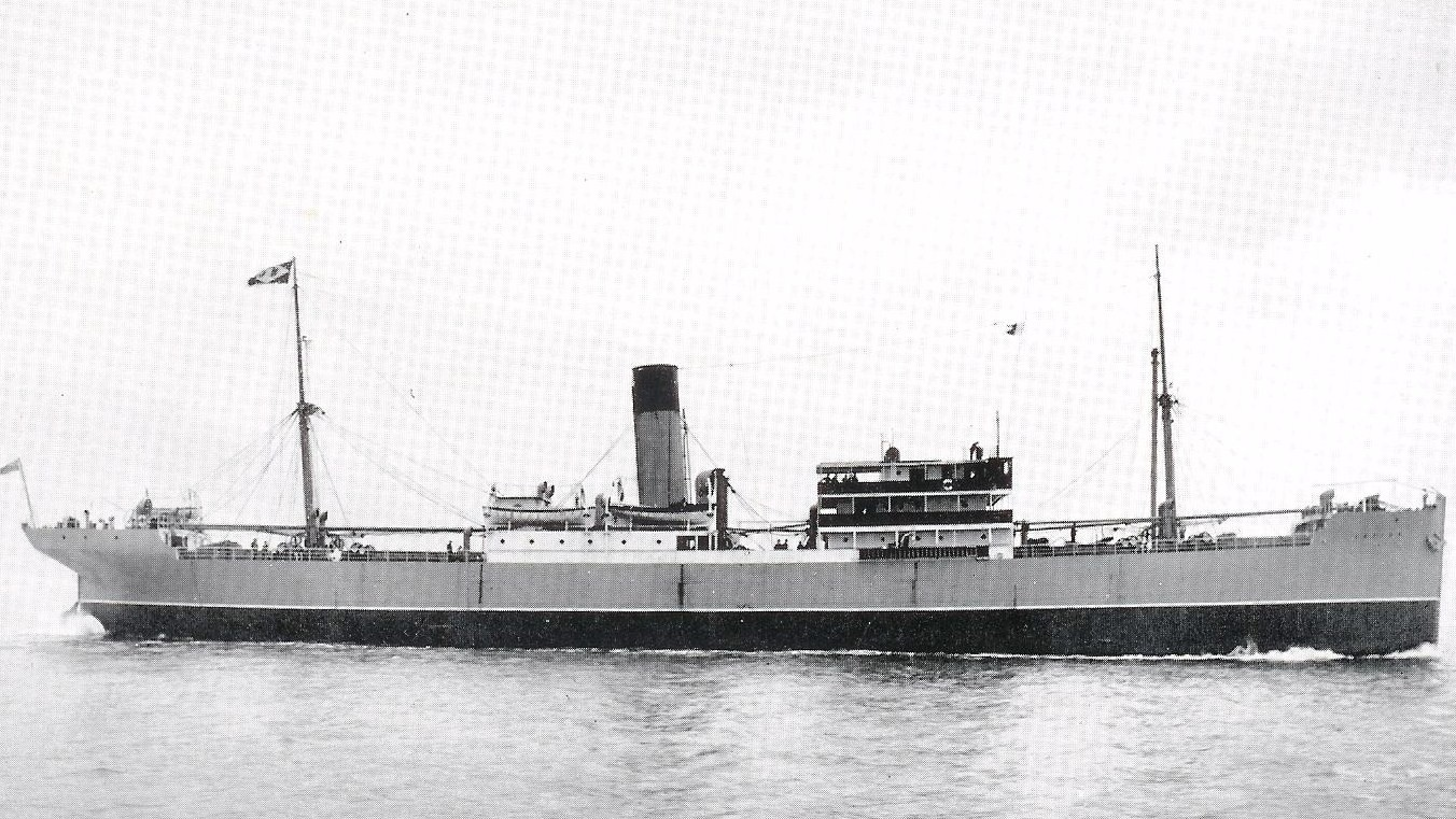 1928 SS Lafian, belonging to UAC